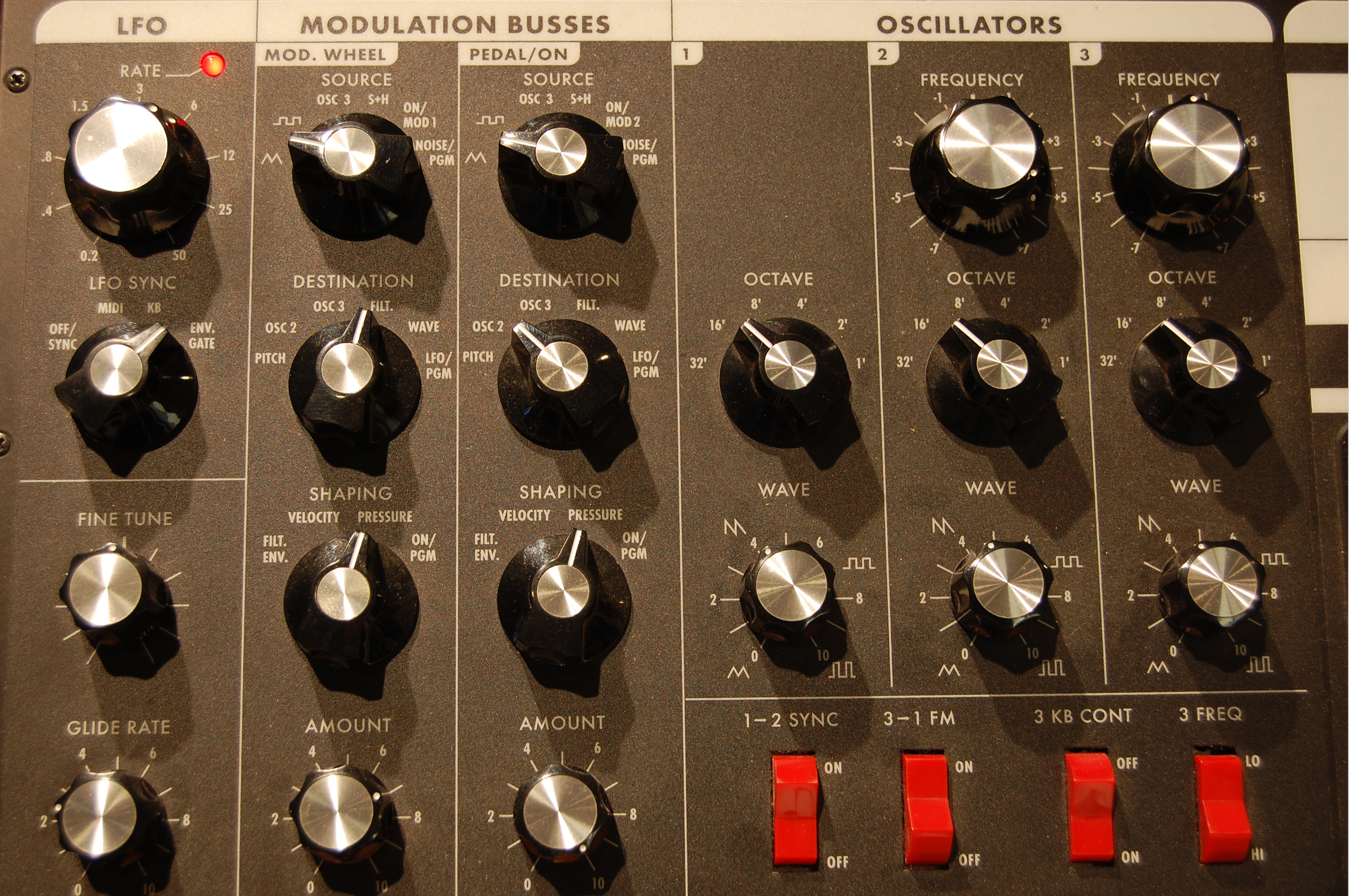 Close up of a friend's Minimoog Voyager Performer Addition.